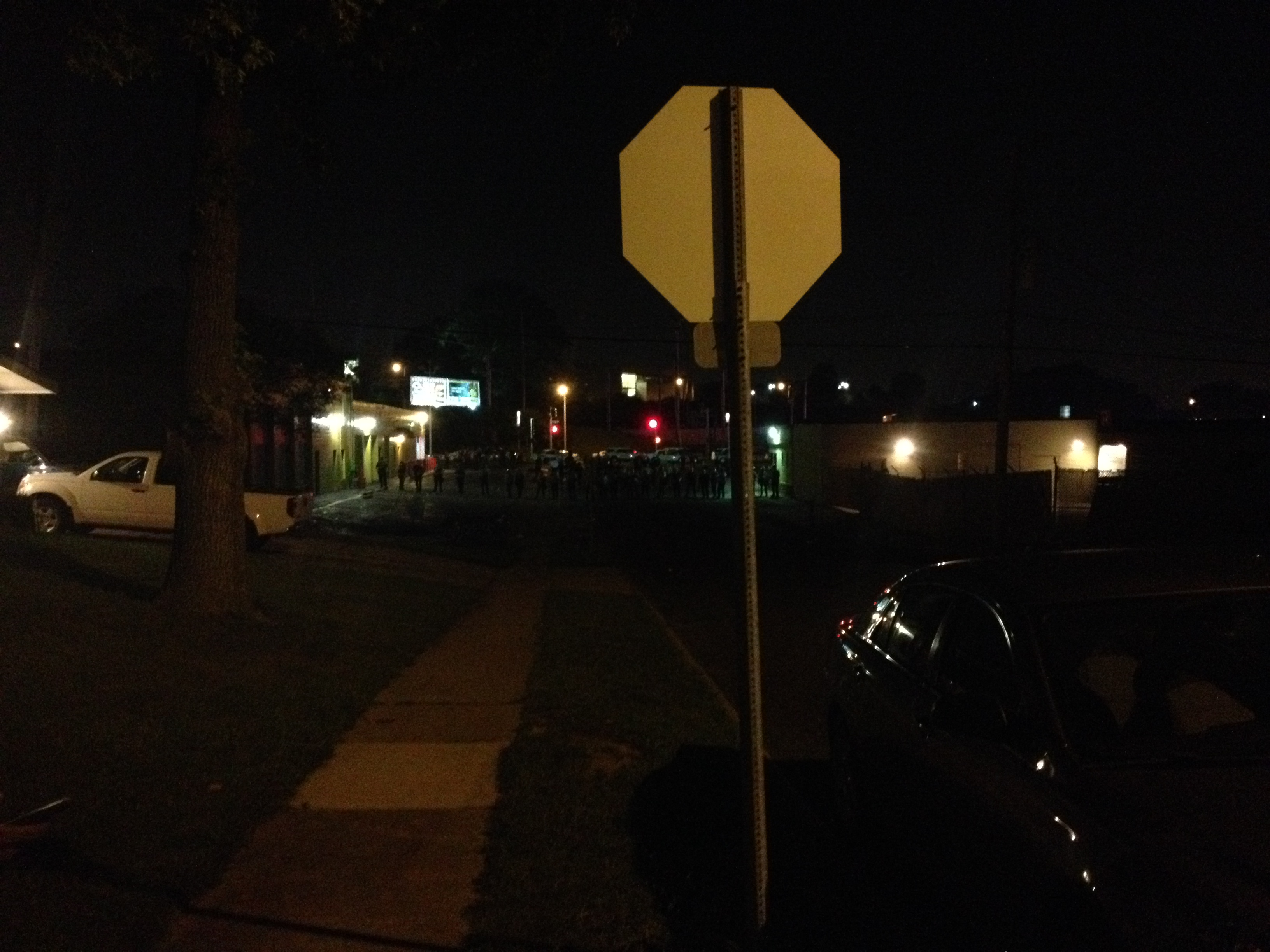 Line of riot police.